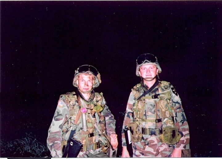 Soldiers from US Army Infantry near Camp Moneith during Operation Allied Force.